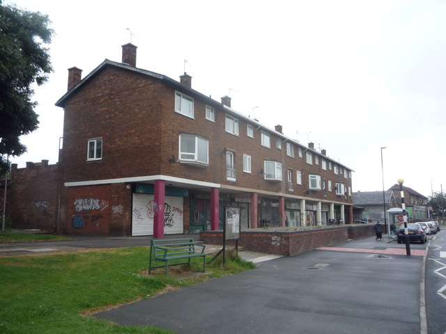 Shops on Lowedges Road